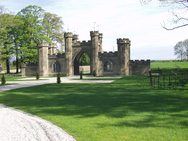 Gatehouse to Brynkinalt. The gatehouse survives and is used as the Brynkinalt Estate Office.